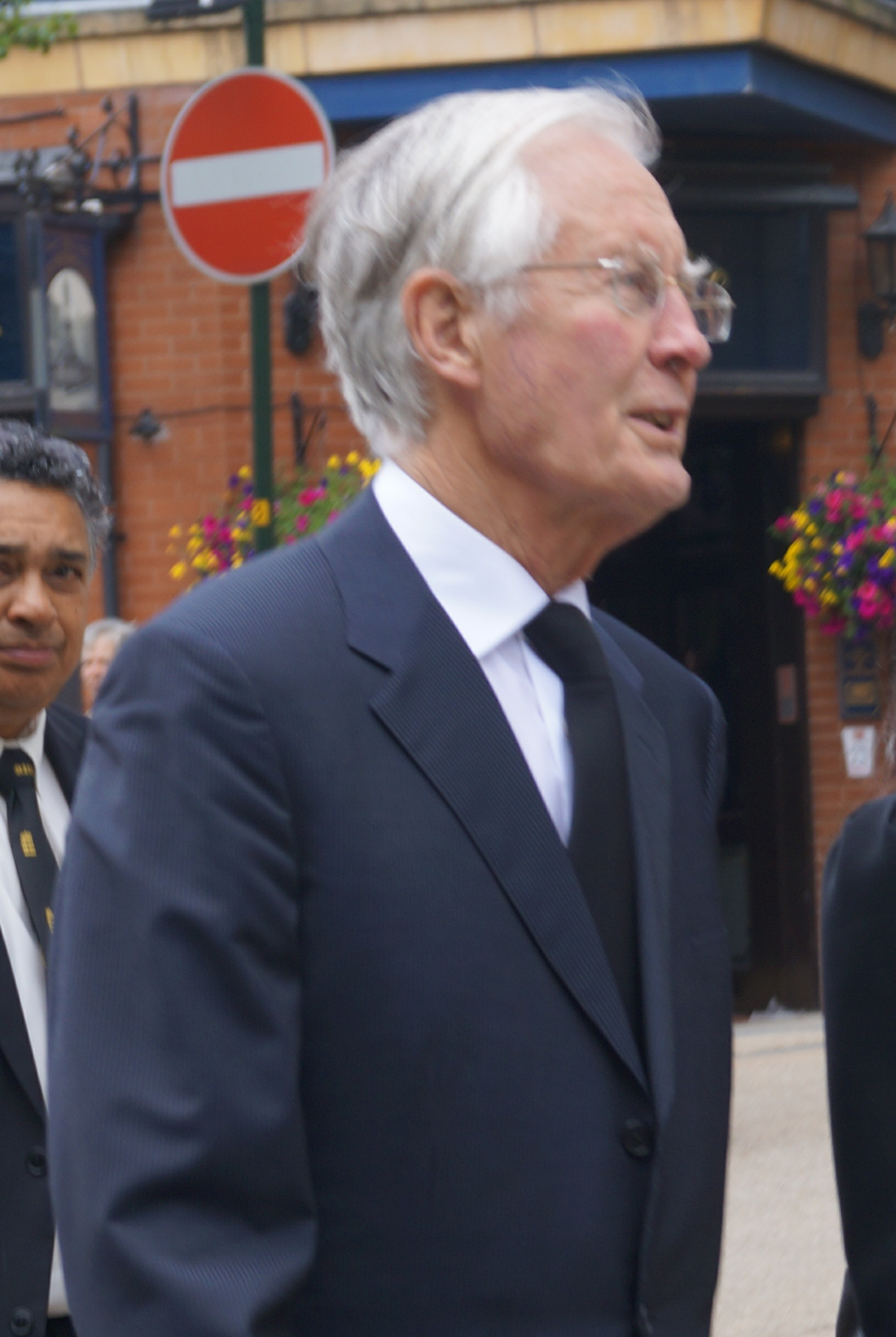 Michael Meacher is Labour MP for Oldham West and former Environment minister.